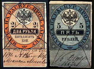 Russian empire. Tobacco excise stamps, 1871